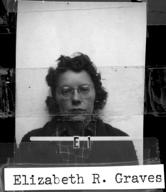 Elizabeth Riddle Graves Los Alamos ID badge. Higher resolution than File:Elizabeth R. Graves Los Alamos ID.png